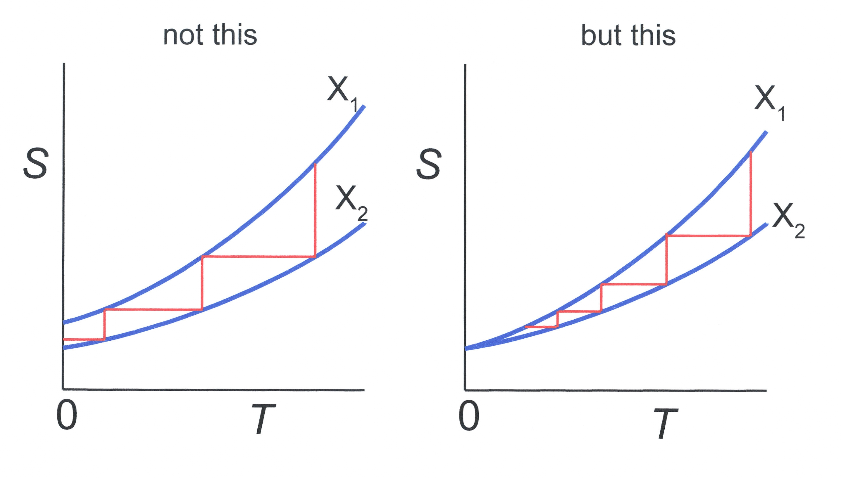 Can T=0 be reached in a finite number of steps?